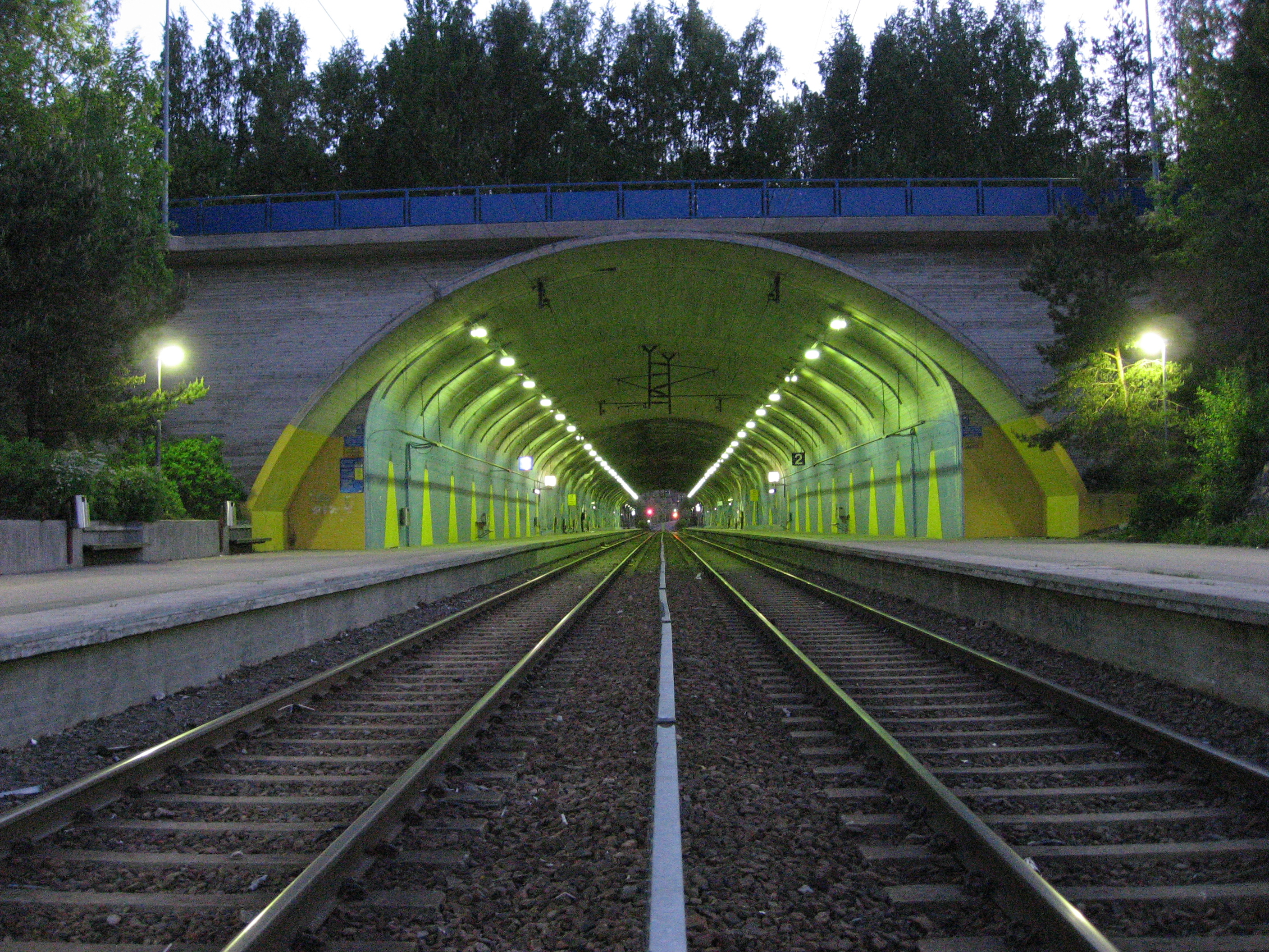 Malminkartano railway station in Helsinki, Finland.